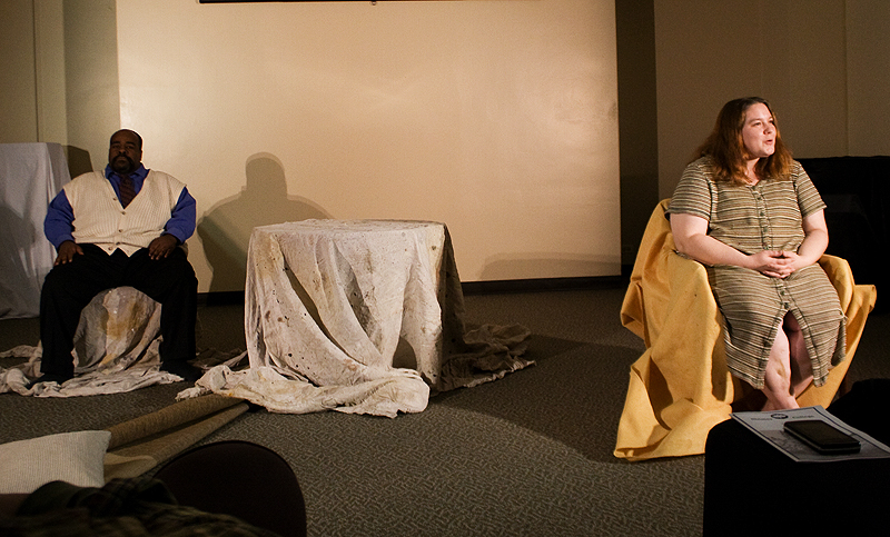 Still from a production of Landscape by Harold Pinter at Shimer College in Chicago in 2008.